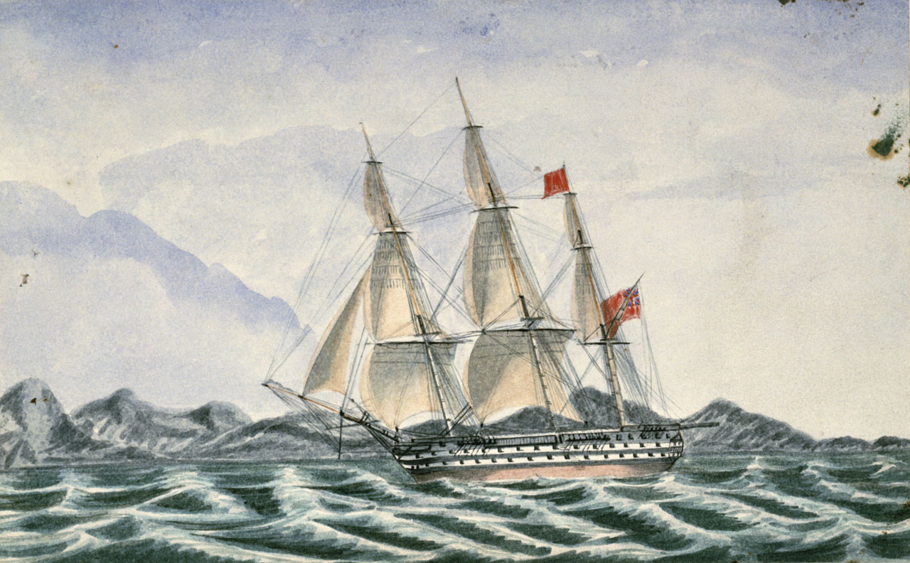 Watercolour of HMS Wellesley, a three-masted, 74-gun ship of the line sailing along a rocky coastline before a good wind. Hills or mountains partially obscured by cloud are shown in the far distance. Wellesley is carrying the red ensign and flies a single red flag from the top of the mizzen mast indicating readiness for action.